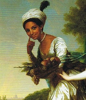 Dido Elizabeth Belle (1761-1804), detail from a Portrait of Dido and her cousin Elizabeth Murray.